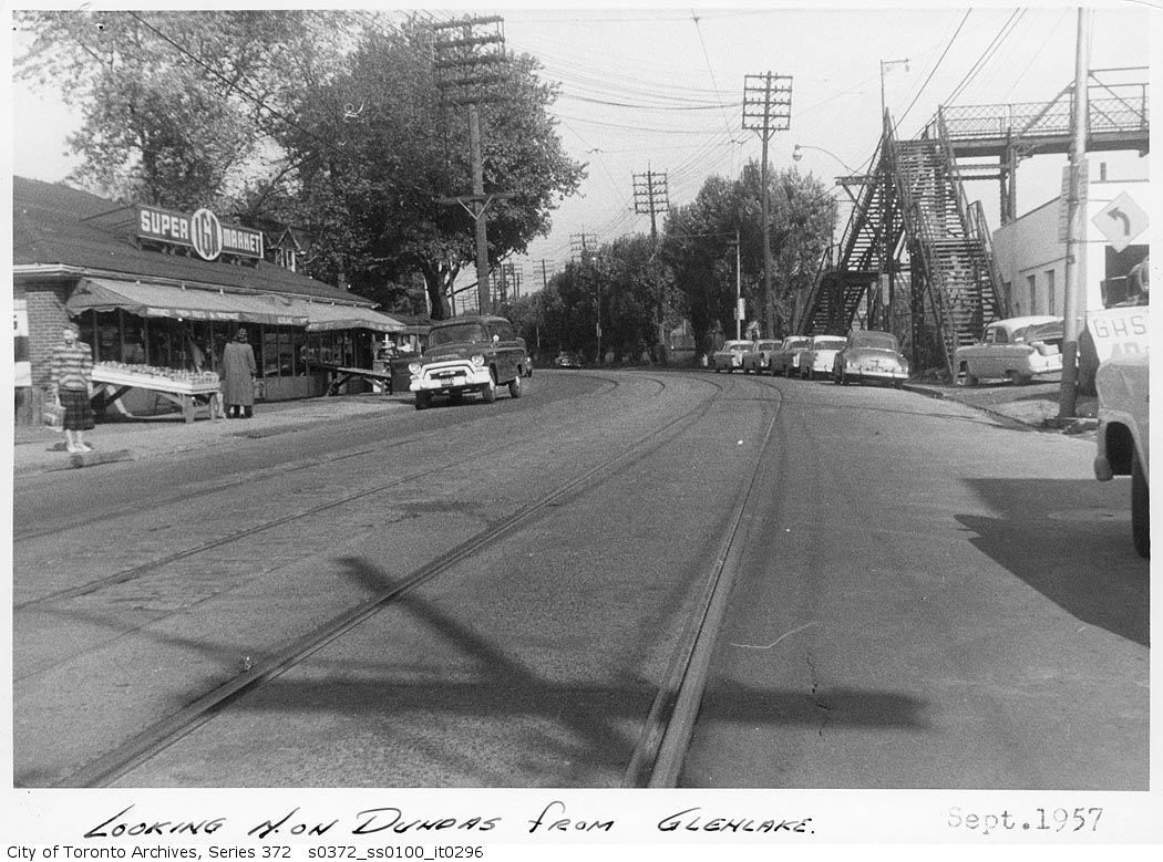 Dundas Street West, looking north from Glenlake Avenue This image is available from the City of Toronto Archives, listed under the archival citation Series 372, Subseries 100, Item 296. This tag does not indicate the copyright status of the attached work. A normal copyright tag is still required. See Commons:Licensing for more information.